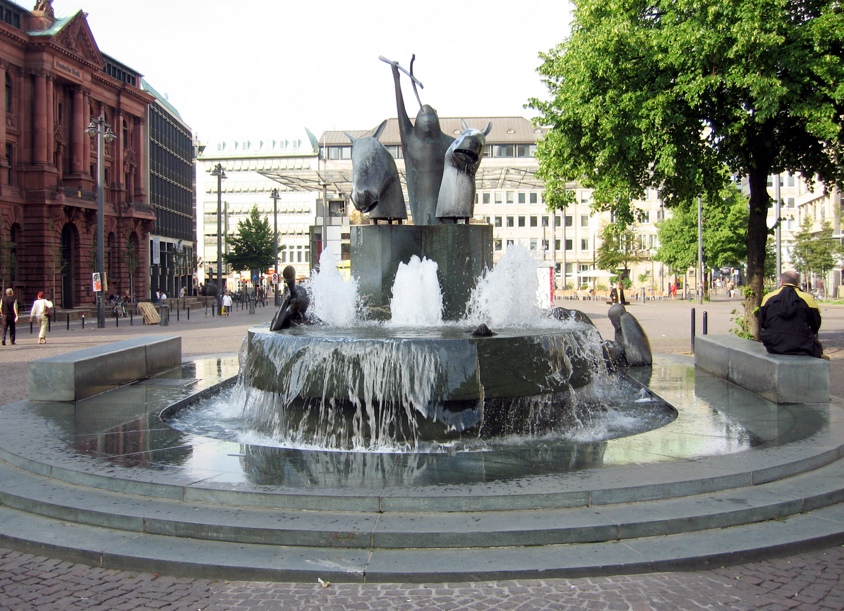 The “Fountain of Neptune” on the Domshof place in Bremen. Designed by Waldemar Otto.